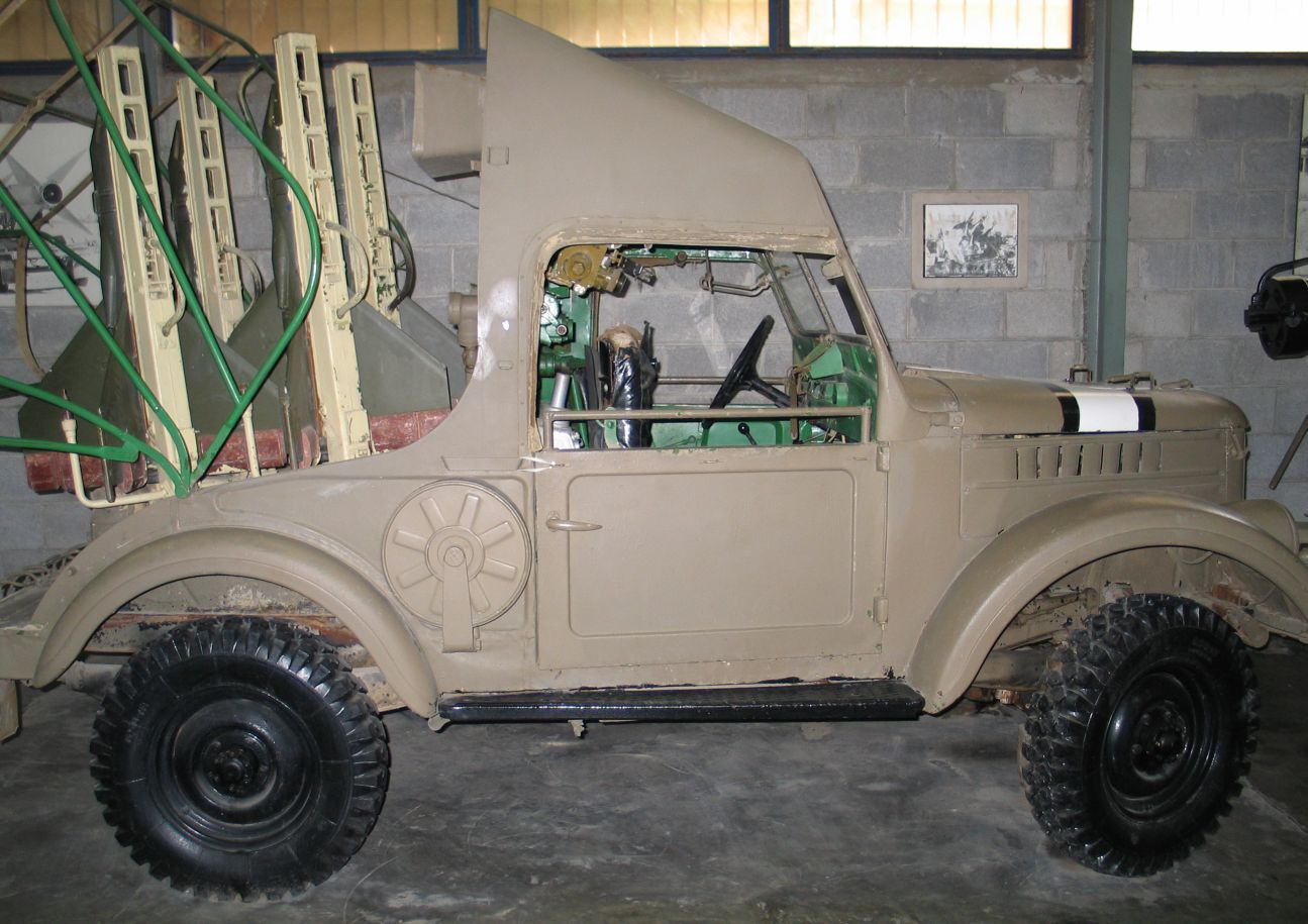 Description: 2P26 anti-tank vehicle (3M6 Shmel / AT-1 Snapper missile launcher mounted on GAZ-69) in Batey ha-Osef Museum, Tel Aviv, Israel. 2005. Source: Photo by me, User:Bukvoed.